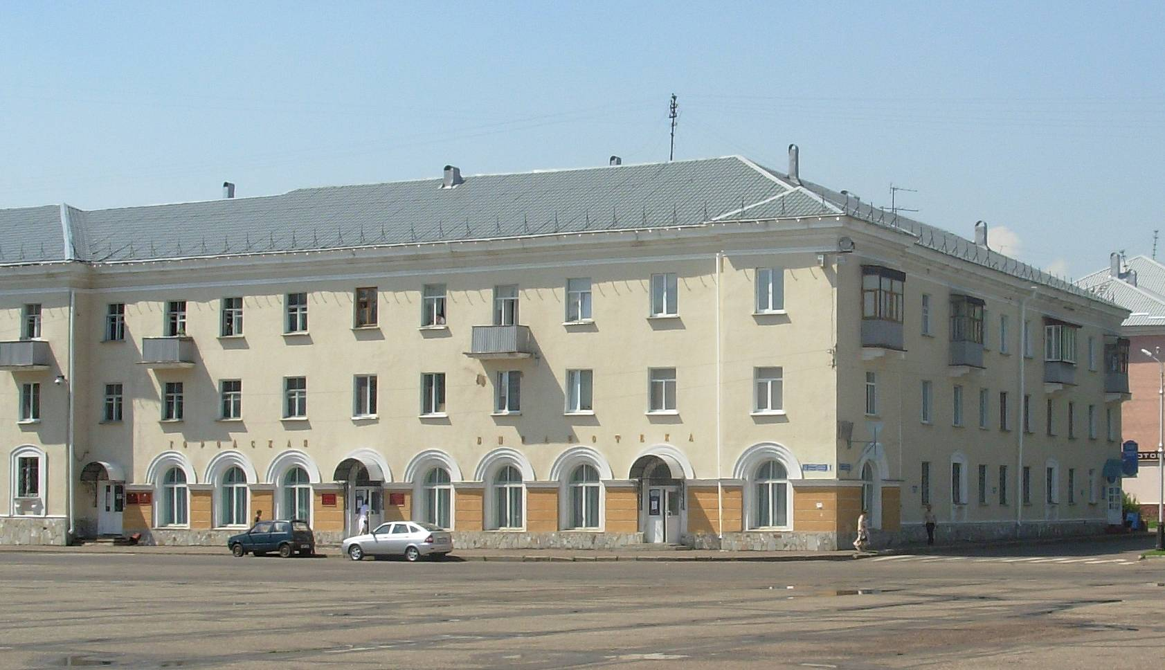 library in Salavat